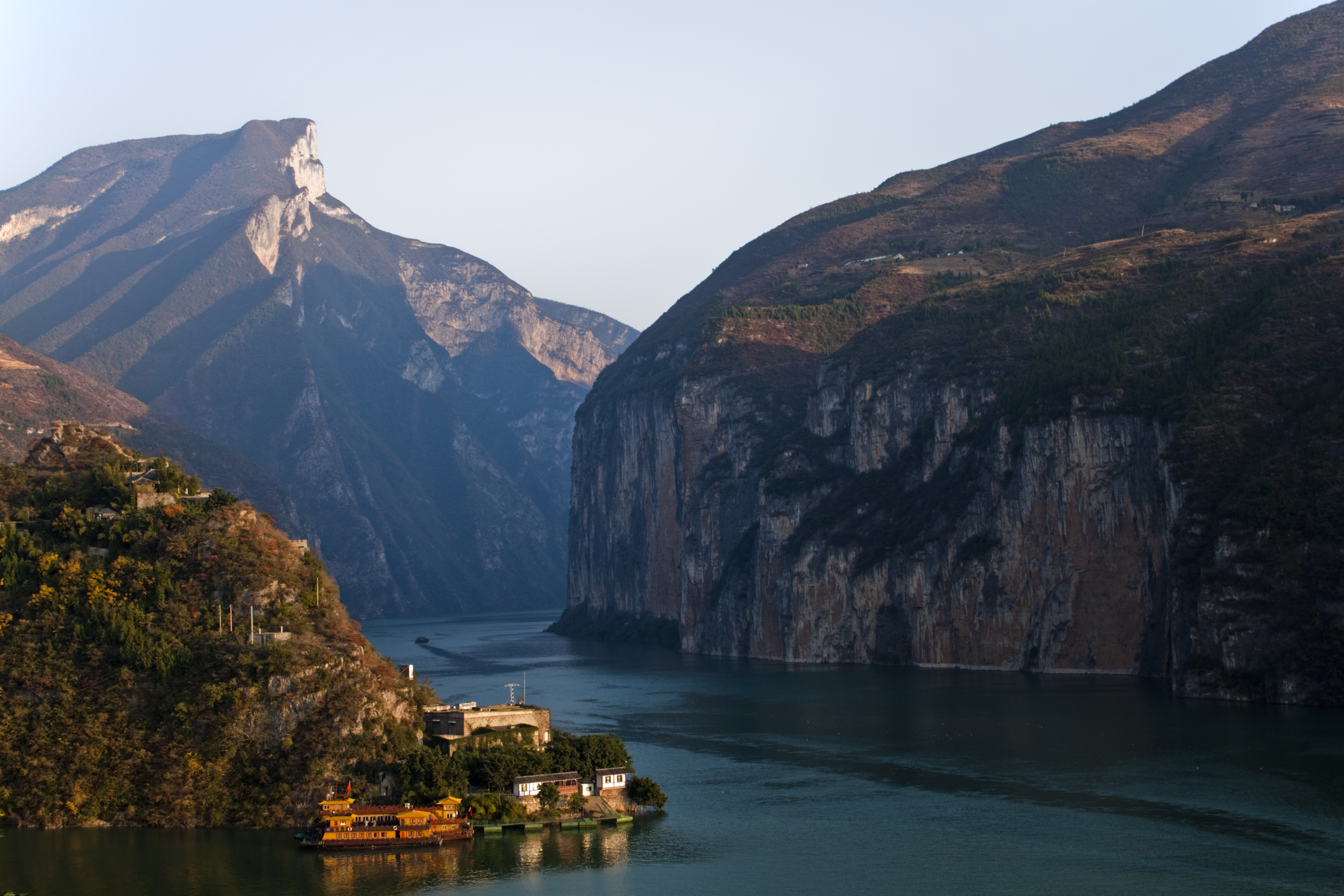 View of the Qutang Gorge along the Yangtze River from Baidicheng.